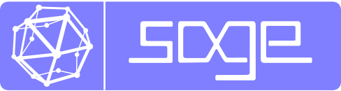 The new logo for Free software Computer algebra system Sage